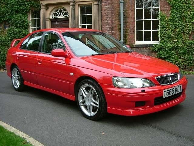 1998 Accord Type R Pre Facelift